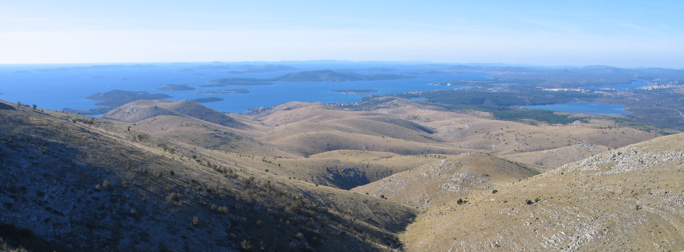 Orlice mountain near Šibenik before construction of the wind farm